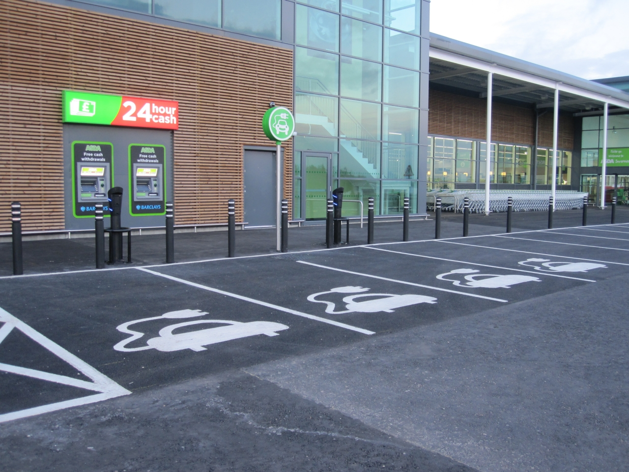 Asda in Inverness rather optimistically has four spaces in the car park for charging electric cars.